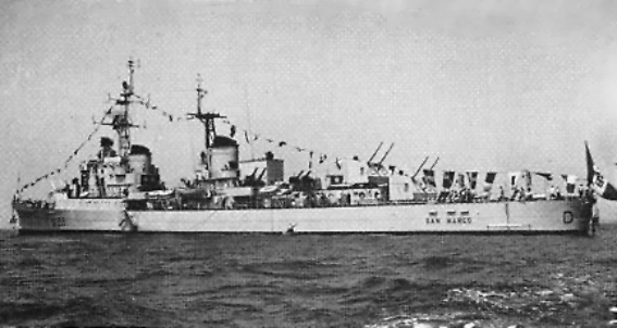 The Italian Capitani Romani class light cruiser/destroyer leader San Marco (D563) in the Mediterranean Sea in 1959.